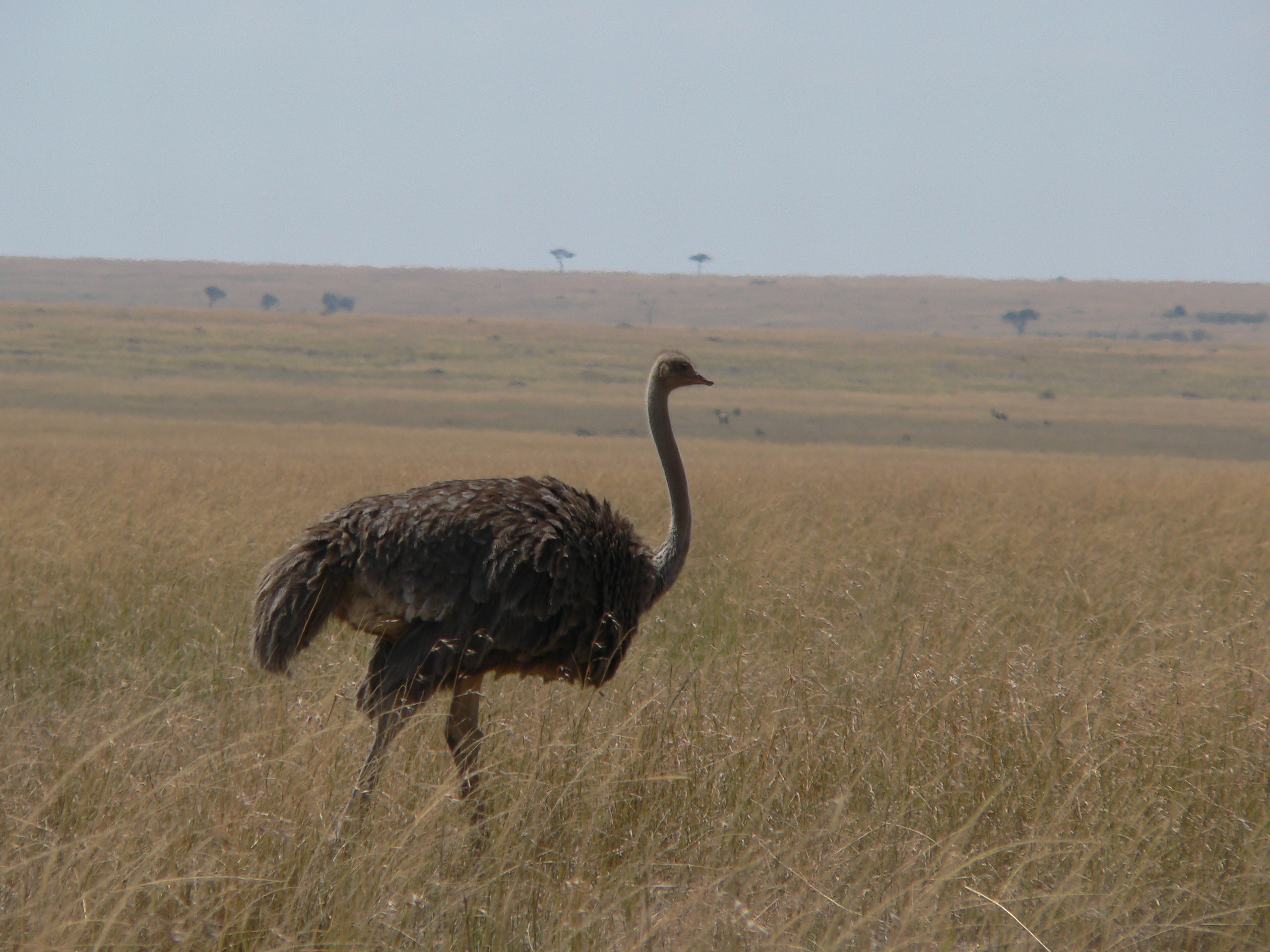 On the plains of the Masai Mara.